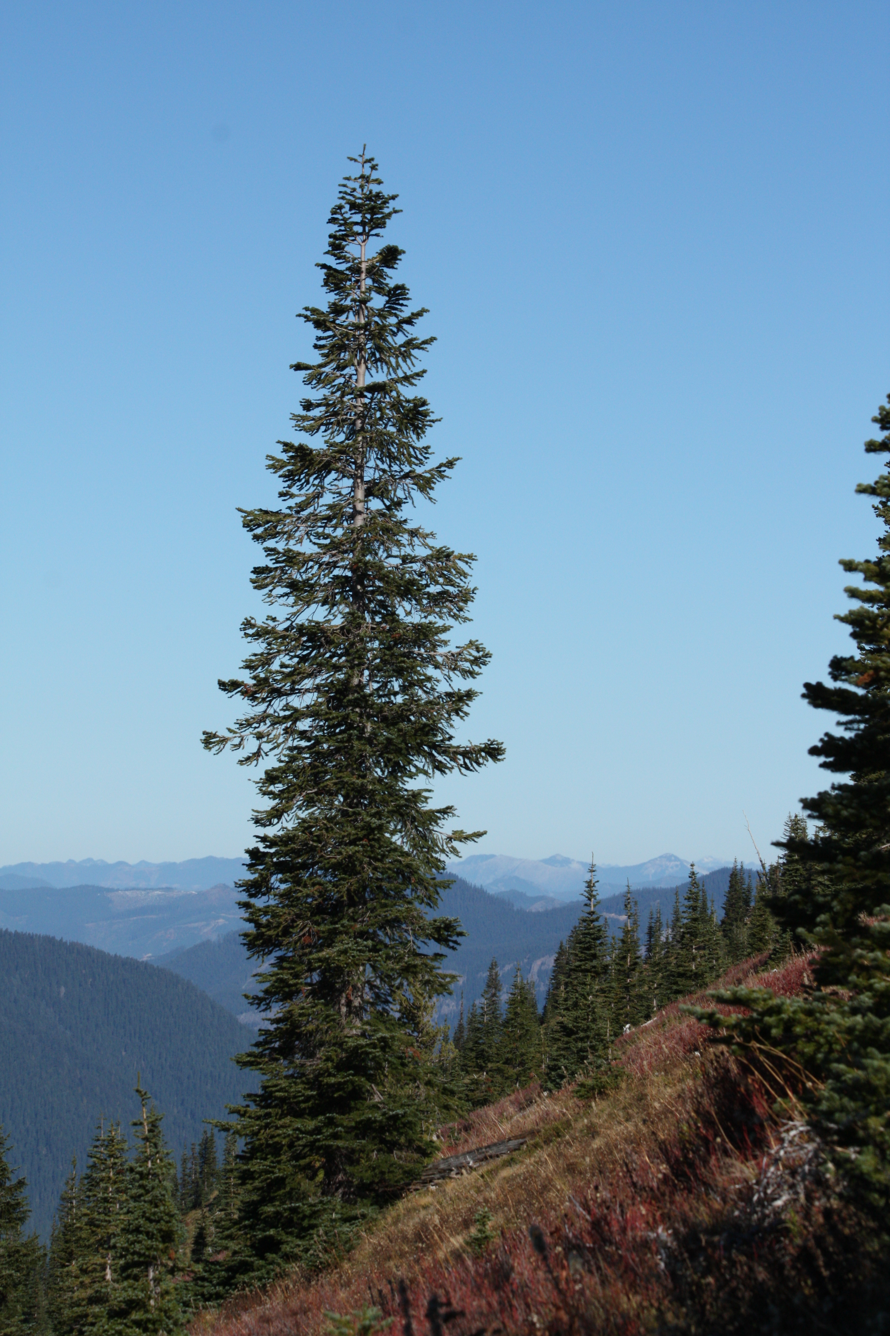 Subalpine Fir